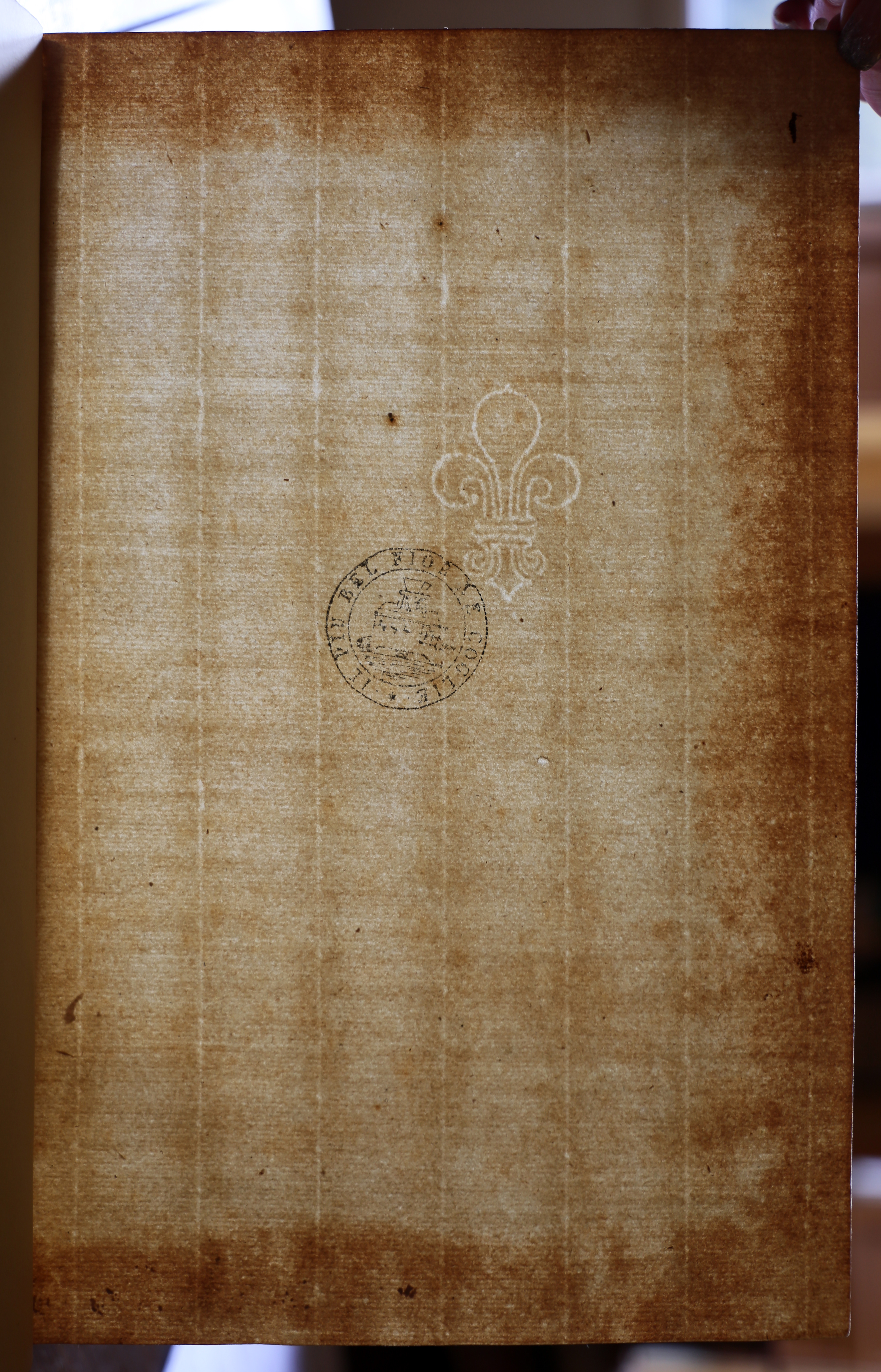 Columnae De excidio Trojae (Crusca Ms. 90)